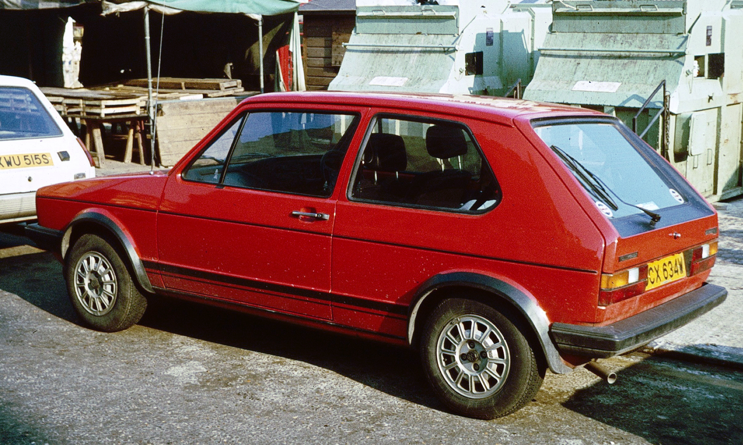 Volkswagen Golf GTI 1980 across the road from the taxi rank (subsequently banished) outside Great St Mary's